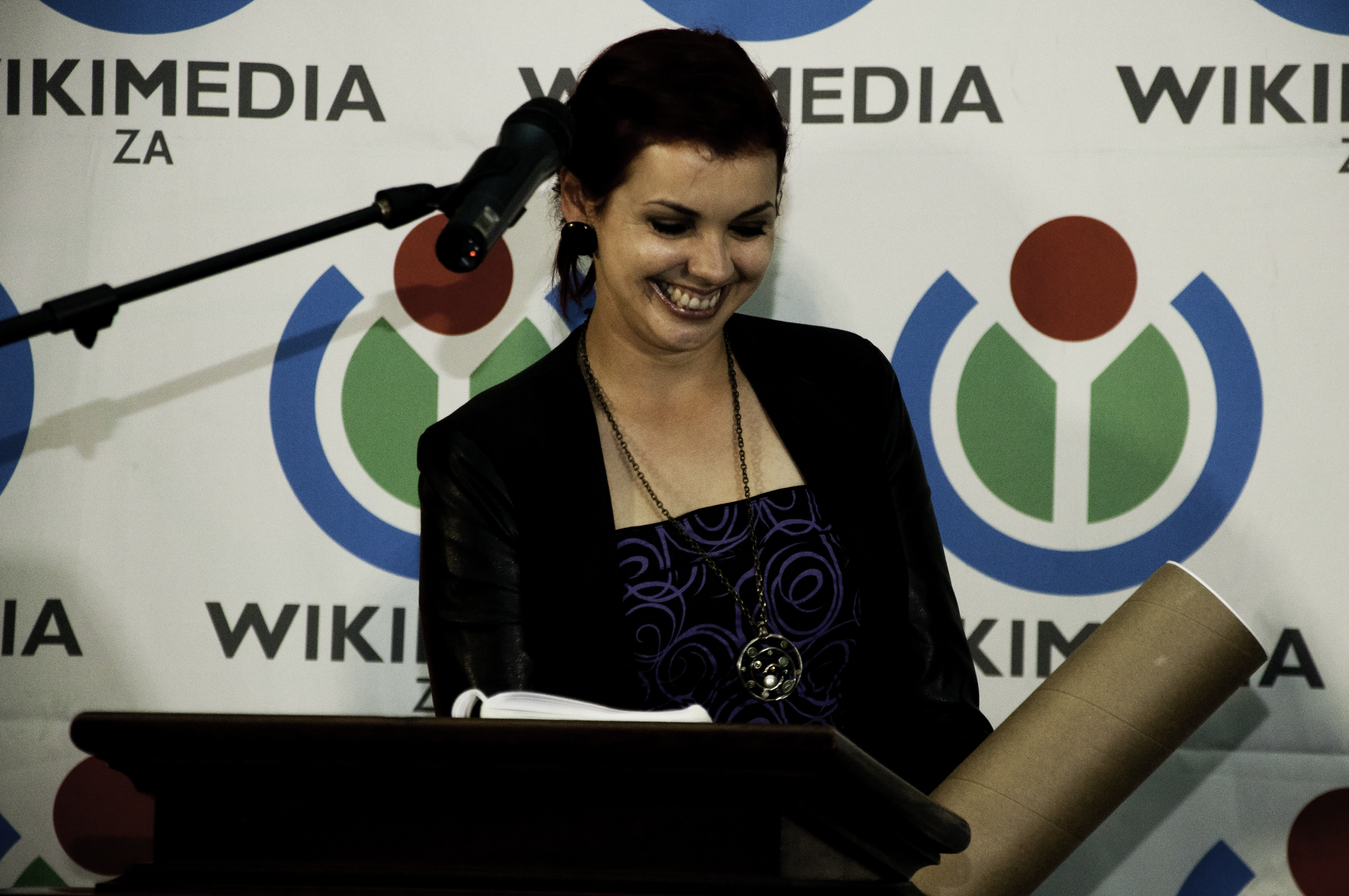 A photograph from the 2014 Wiki Loves Monuments awards ceremony in Cape Town, South Africa. Taken on the 1st November. 1st prize winner (national) Leanri van Heerden accepting her prize for 'Women's Memorial Under Rainy Sky'